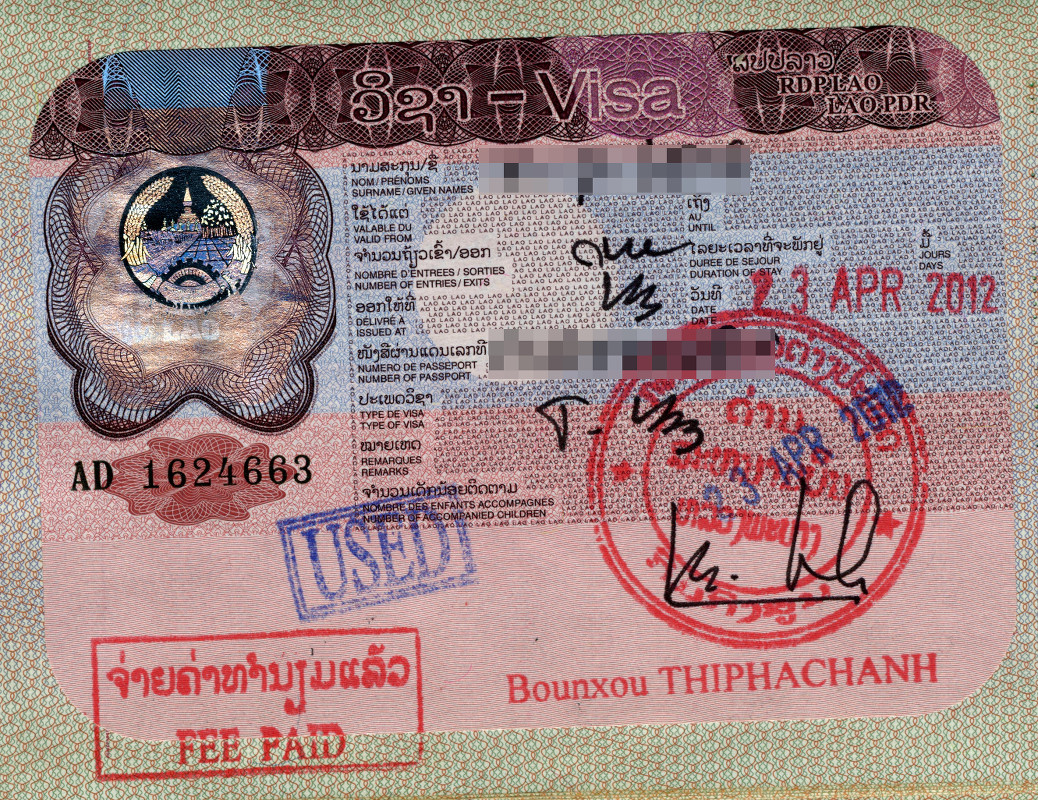 Lao Visa upon arrival from Luang Prabang Airport